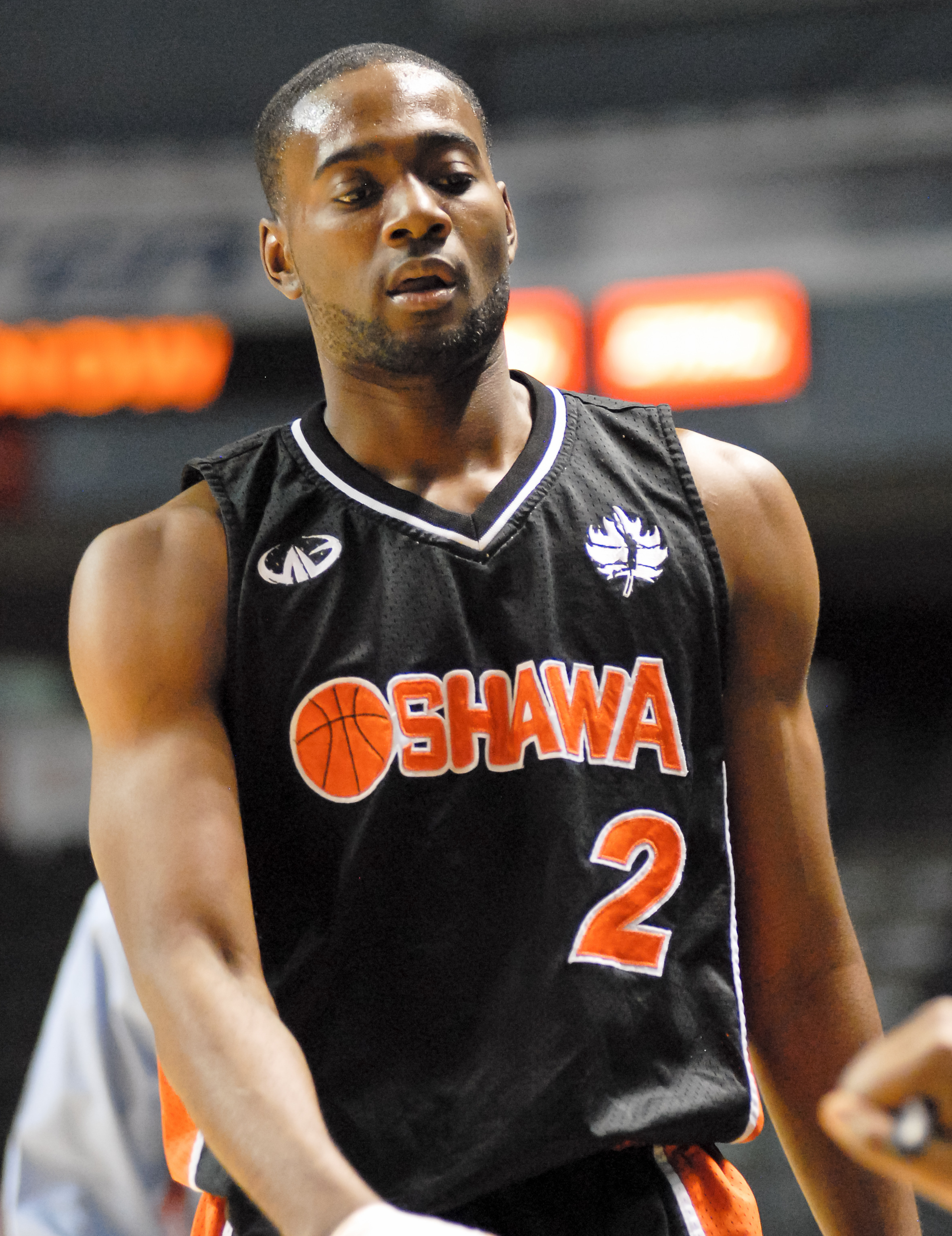 Oshawa Power player Papa Oppong during a game against the London Lightning in London.